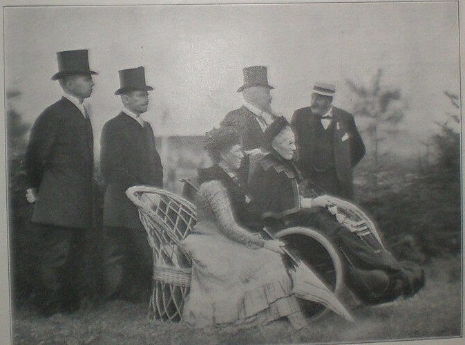 The last photo of Queen Marie Henriette of Belgium, just a week before her death